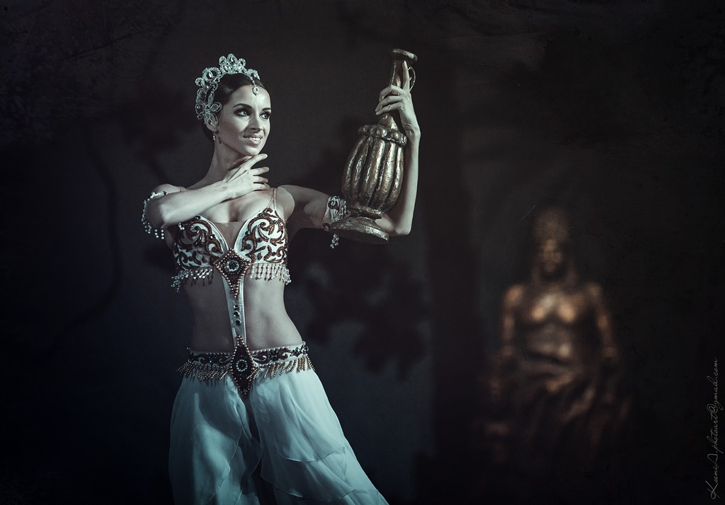 National Opera House of Ukraine_La Bayadere